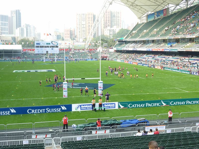 2011 Hong Kong Rugby Sevens, matches by mini squads